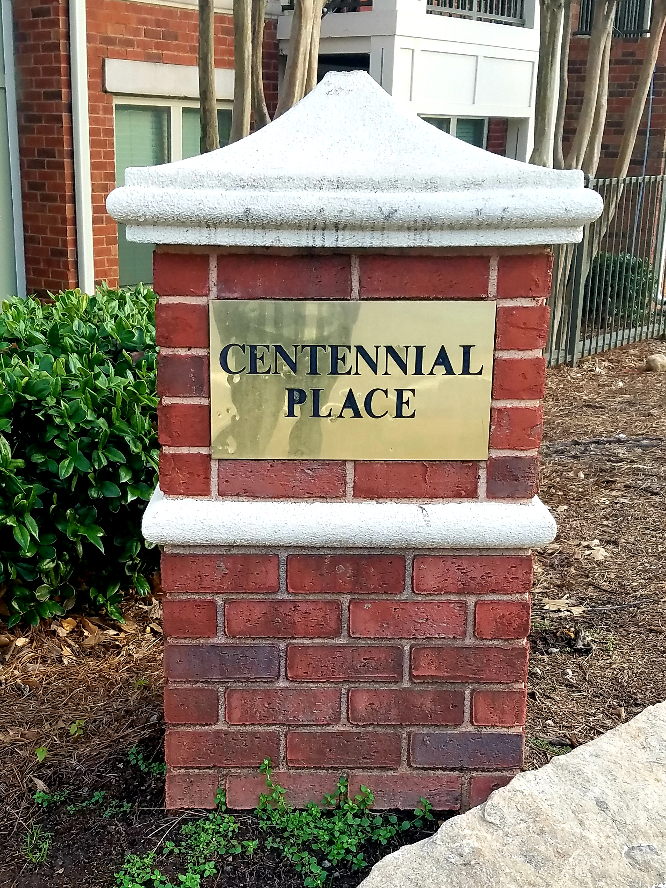 Marker for Centennial Place in Atlanta, Georgia.